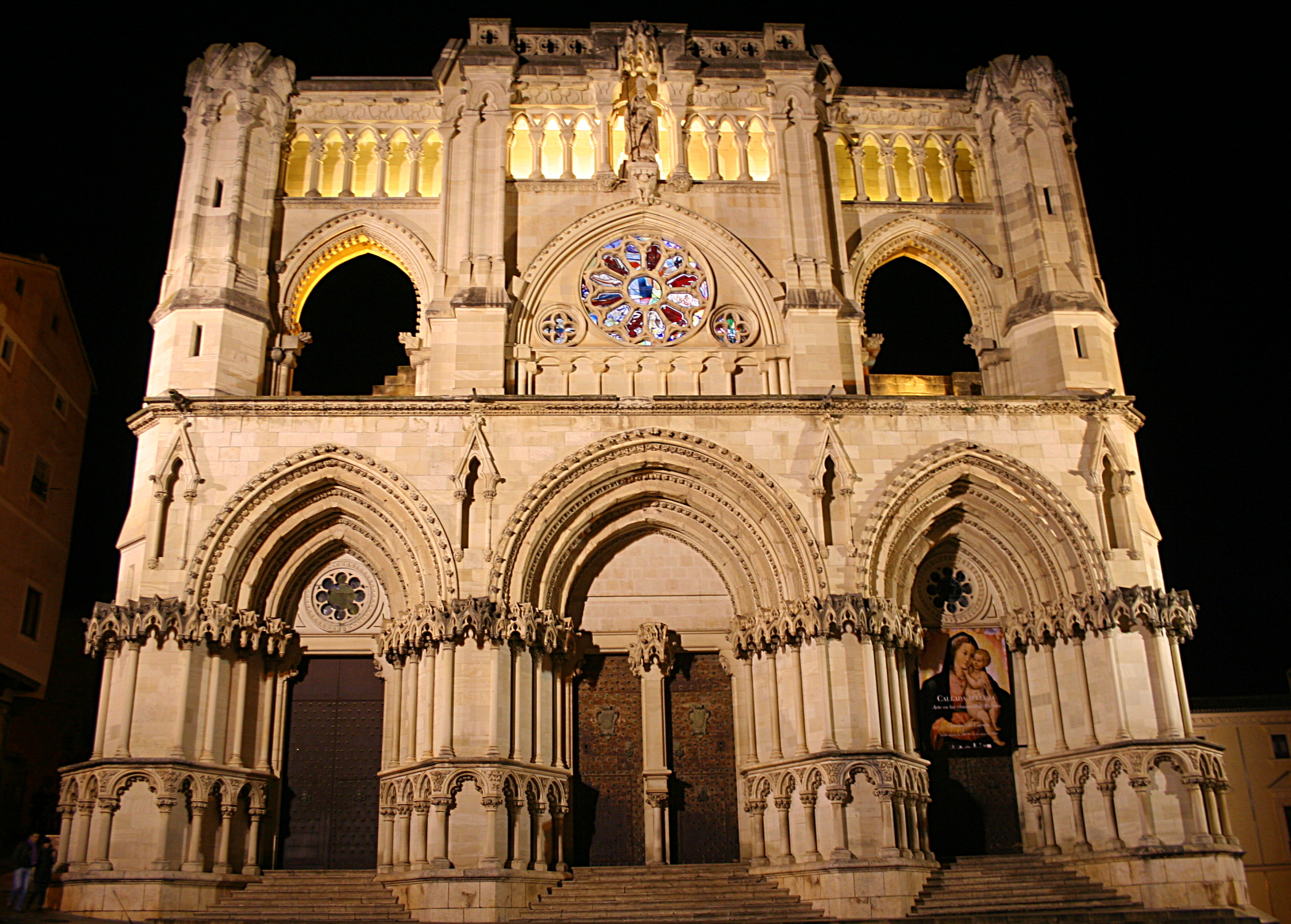 Cuenca Cathedral, Spain.